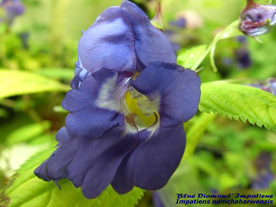 Egil J. Skarning